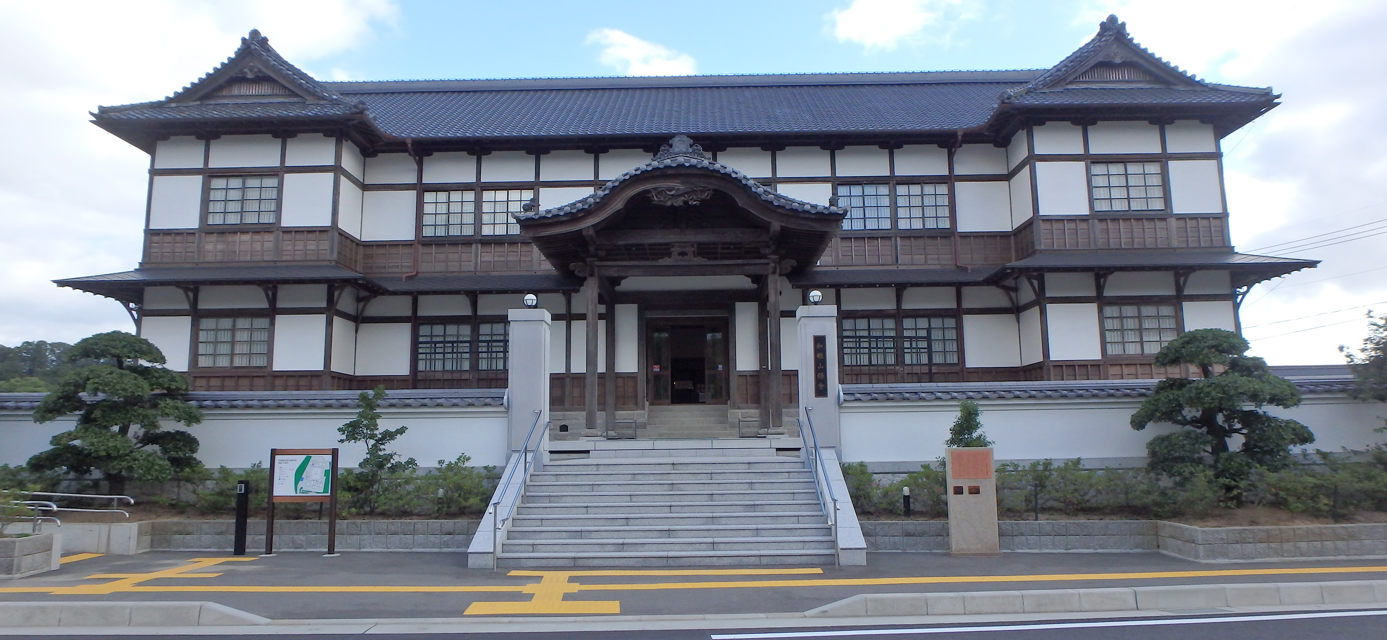 Ichijokaku, Wakayama prefecture,Japan